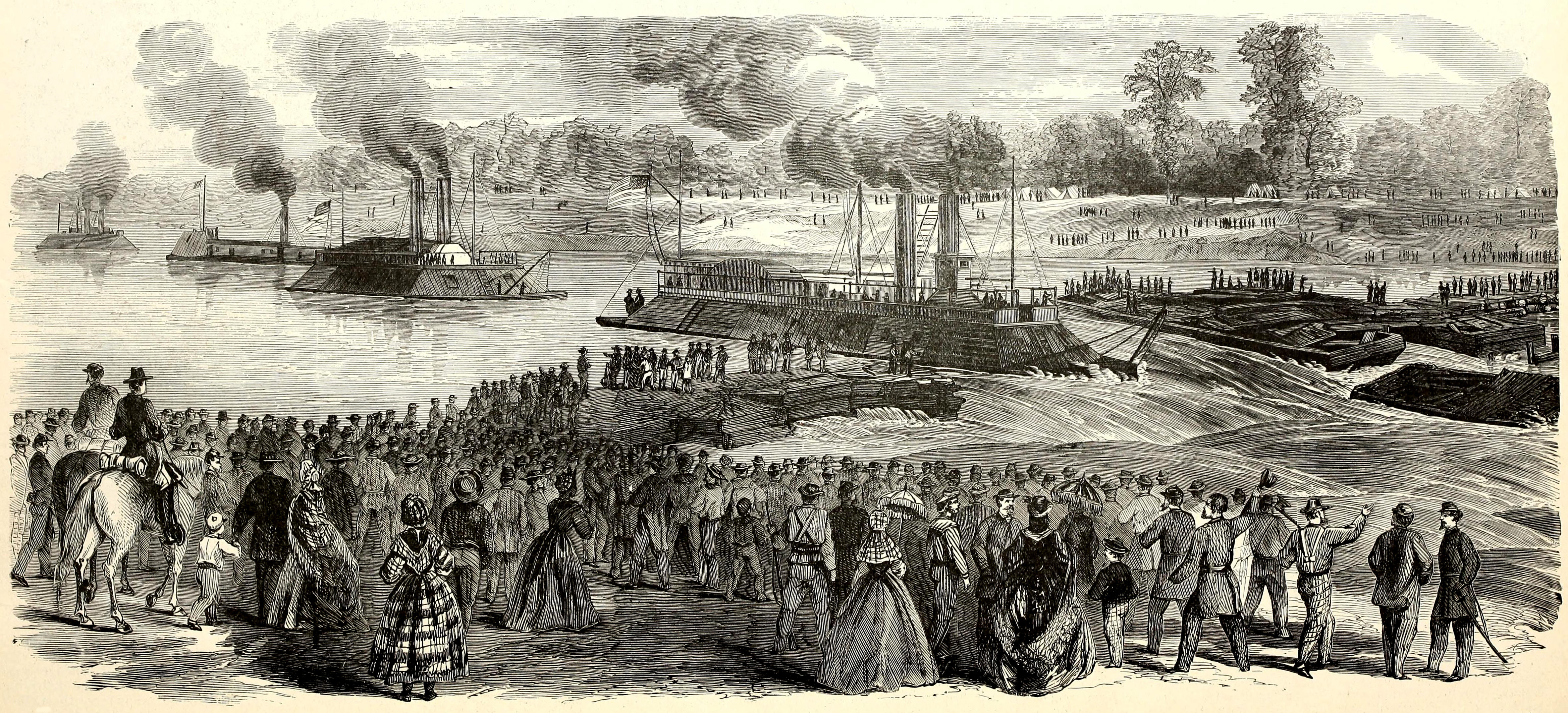 Engraving of Bailey's Dam at Alexandria, Louisiana during the Red River Campaign in 1864 of the American Civil War